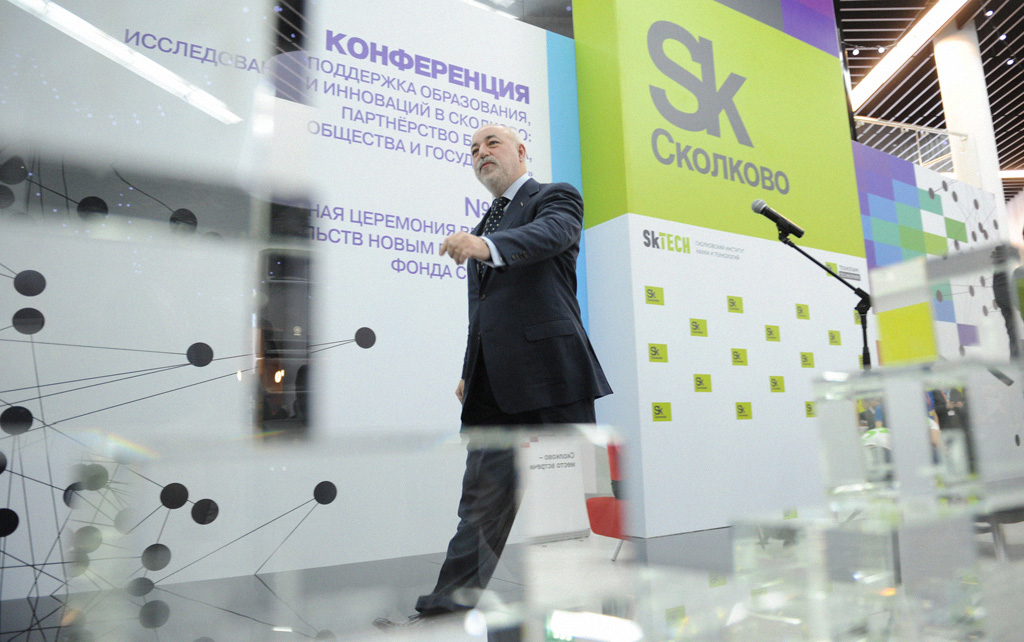 “Presentation by Skolkovo Institute of Science and Technology”. President of Skolkovo Foundation Viktor Vekselberg during a presentation by the Skolkovo Institute of Science and Technology.